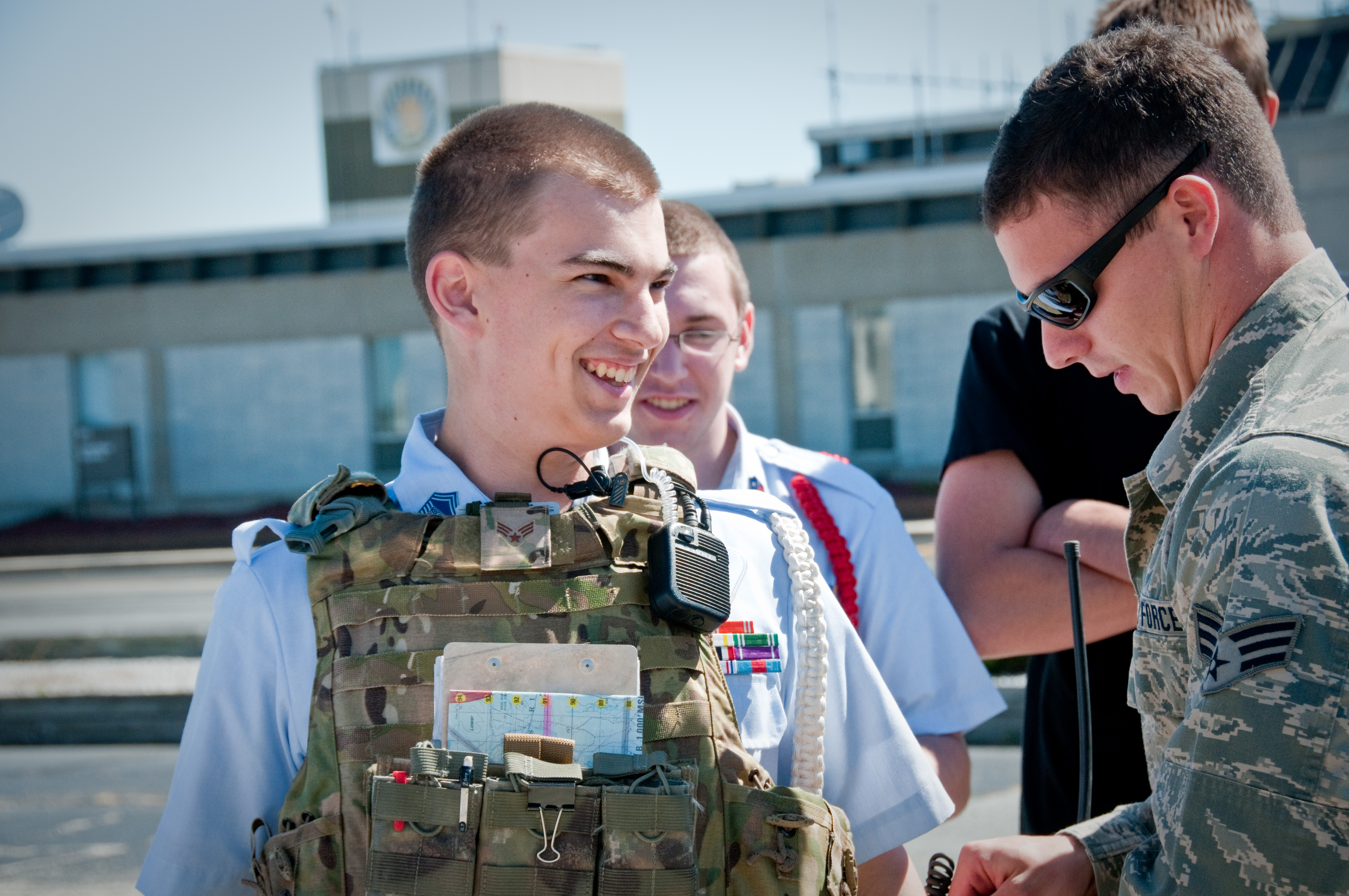 U.S. Air Force Senior Airman Ethan Hugg, a Joint terminal attack controller (JTAC) helps some Civil Air Patrol Cadets from the Cumberland Composite Squadron, NJ into his body armor at 177th Fighter Wing on June 26. Hugg is a New Jersey Air National Guardsman assigned to the 227th Air Support Operations Squadron. The 177th Fighter Wing is located at Atlantic City International Airport, NJ. U.S. Air Force photo by Tech. Sgt. Matt Hecht